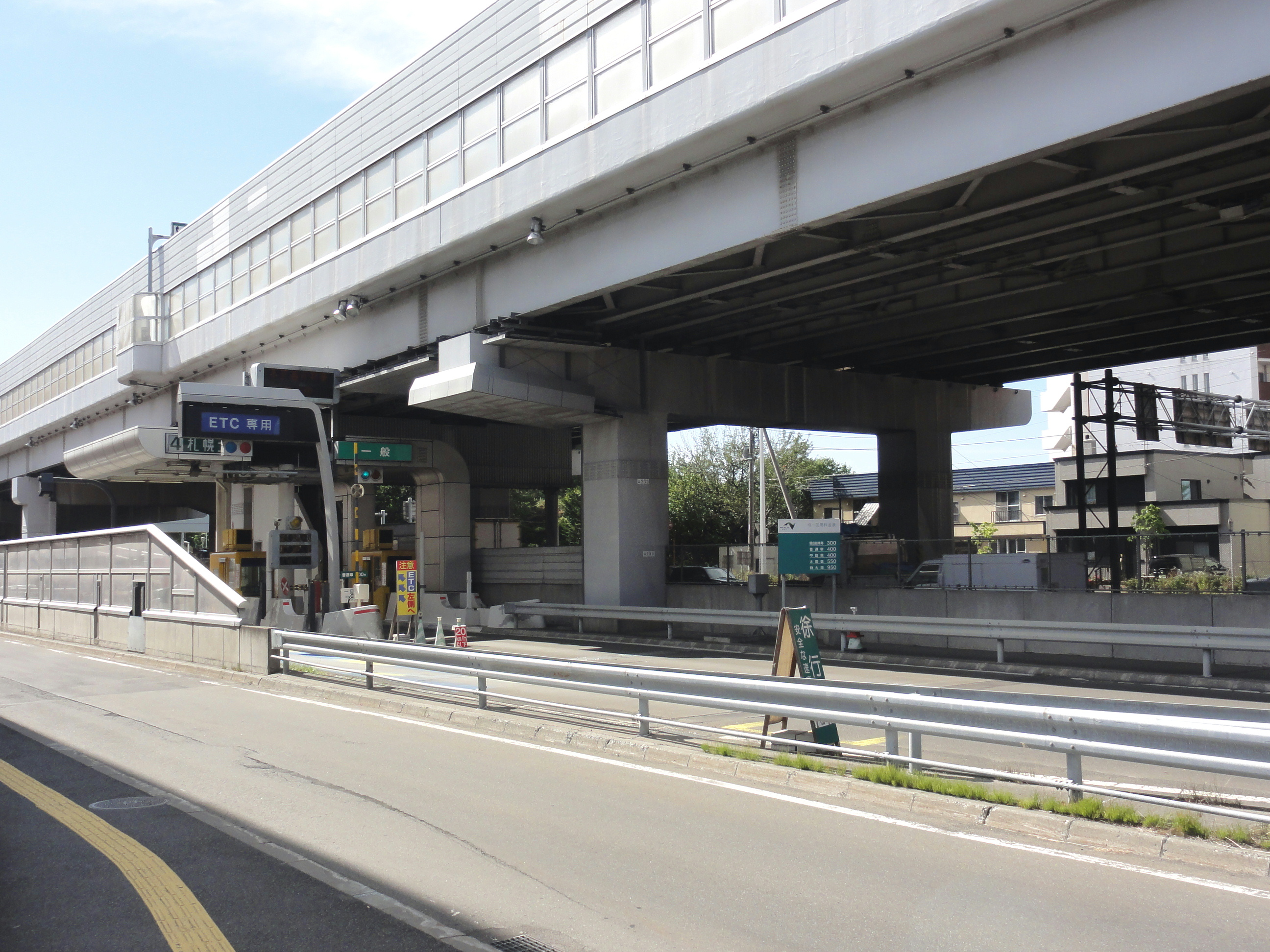 Sasson Expressway Sapporo-kita IC (for Otaru) Kita-ku, Sapporo, Hokkaidō)